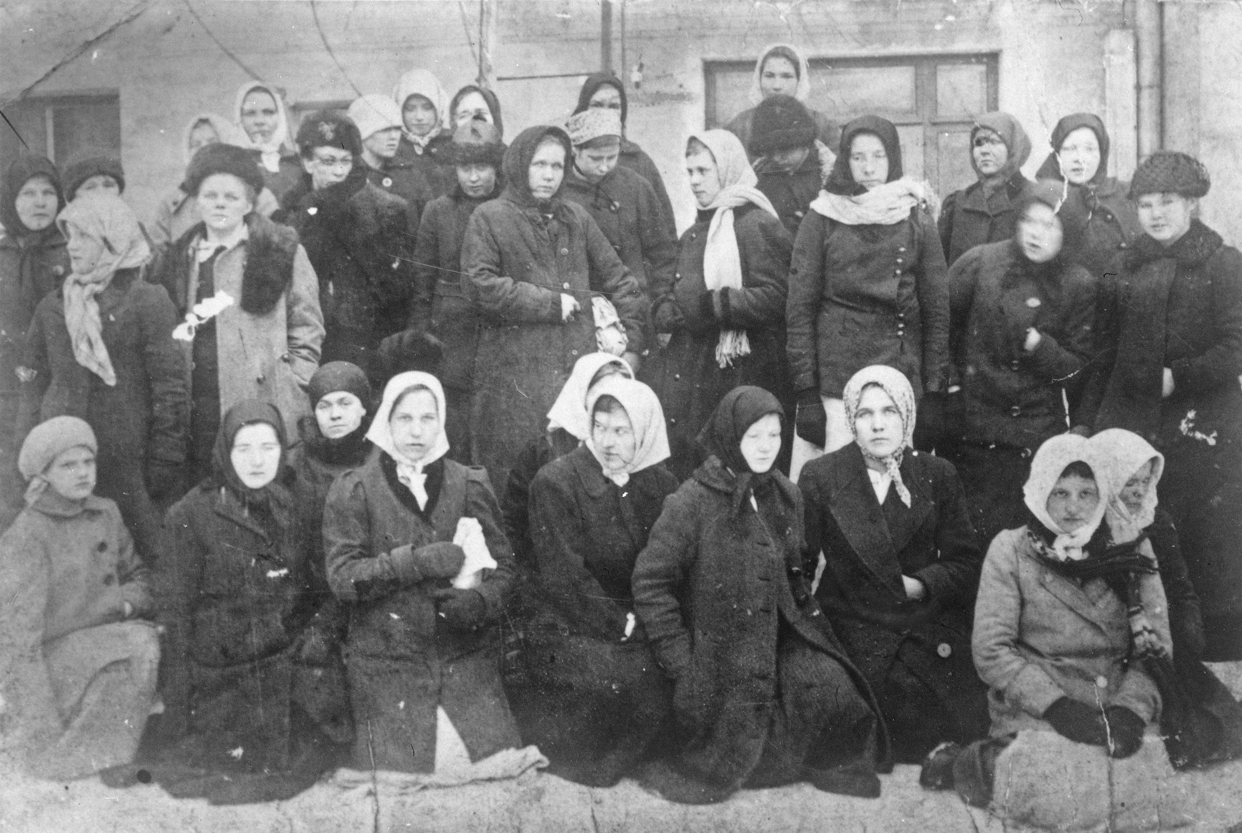 Women arrested after the Battle of Oulu.